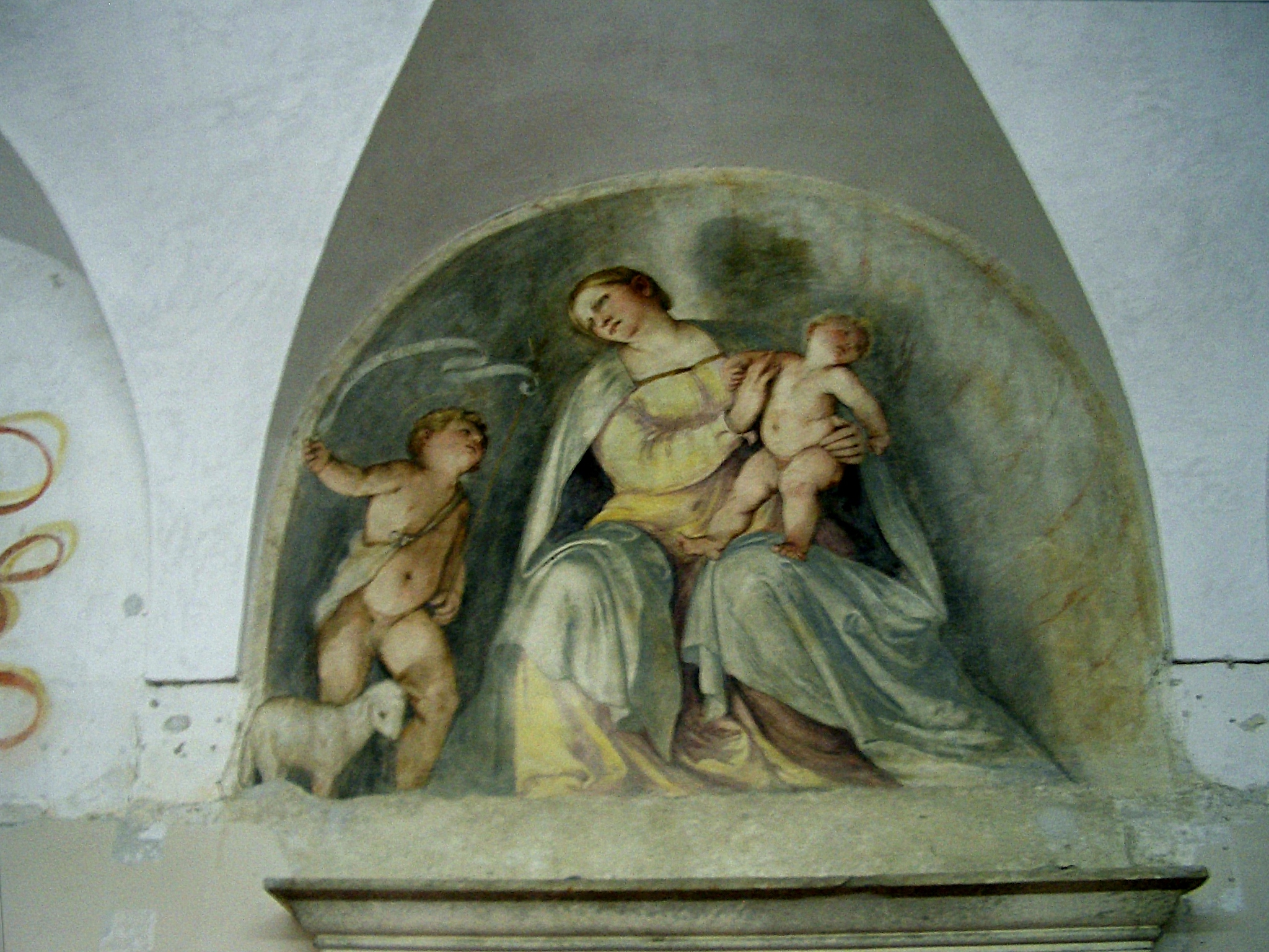 Madonna and Child with St. John the Baptist